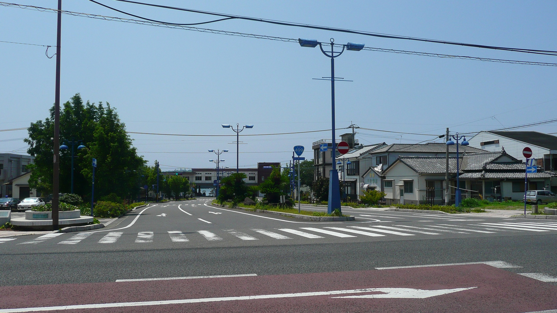 National Route 499 Ends(Akune City, Kagoshima, Japan)